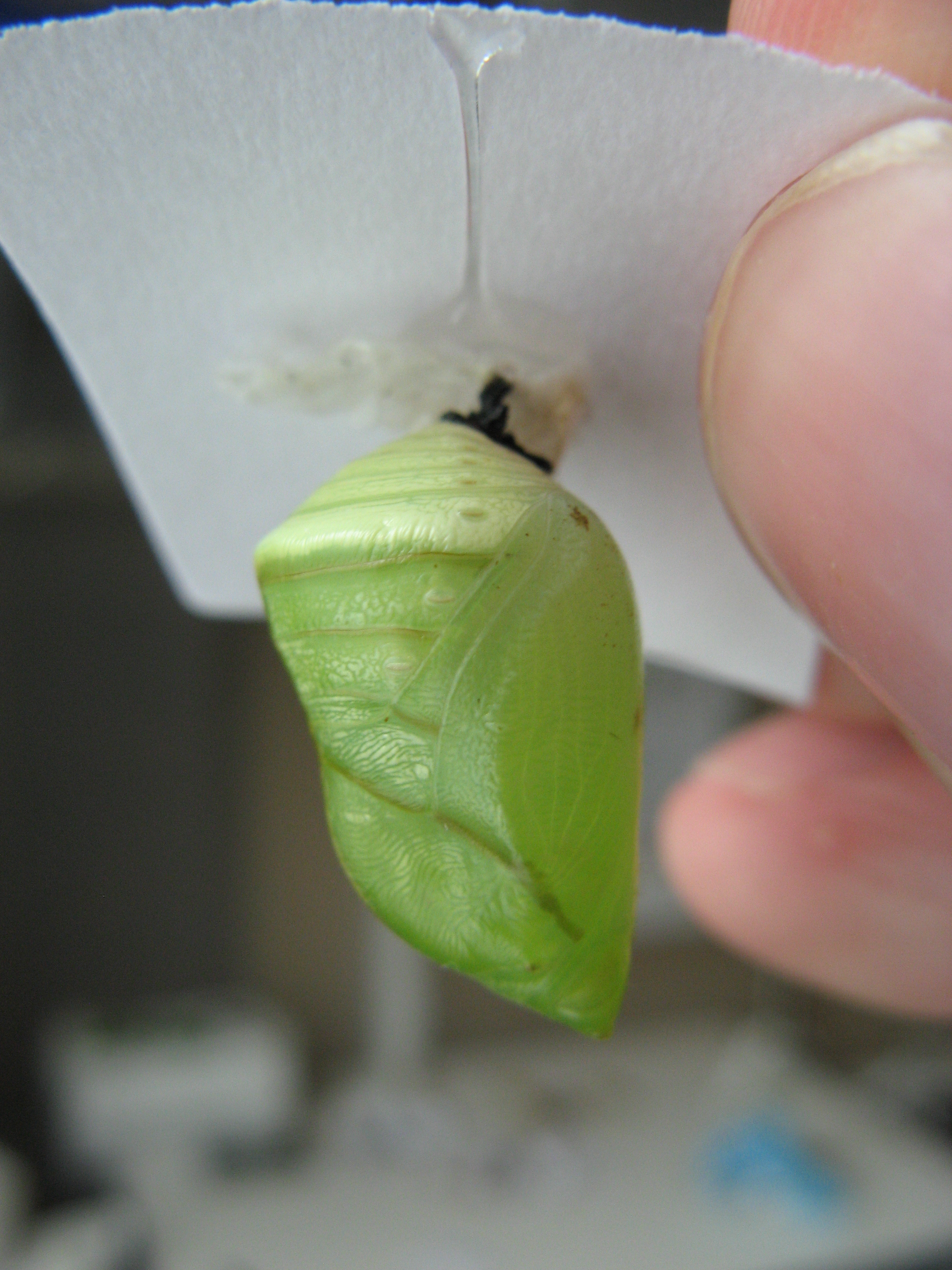 Consul fabius chrysalis, lateral view